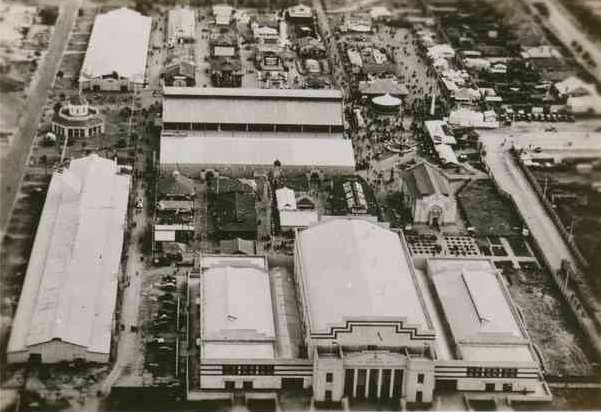 Aerial view of Centennial Hall and surrounding display pavilions at the Wayville Showgrounds during the Royal Adelaide Exhibition 1947